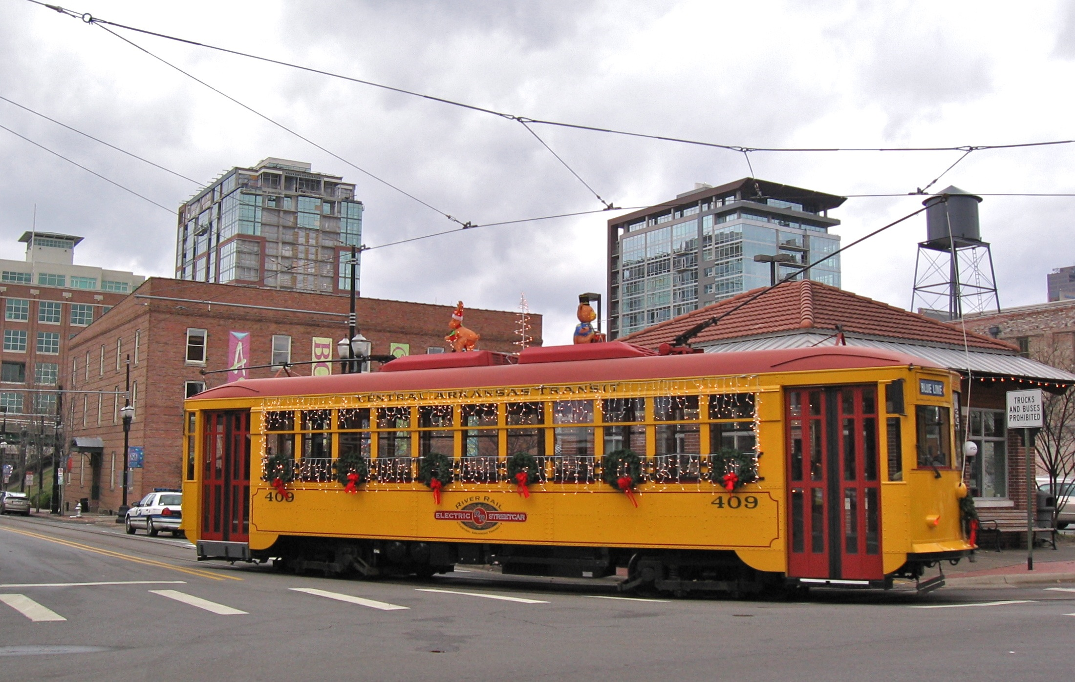 Little Rock, Arkansas, streetcar 409, of the River Rail Streetcar line, decorated with lights and wreaths for the Christmas season. Car 409 is a replica of a double-truck Birney-type streetcar, built in 2004 by the Gomaco Trolley Company.